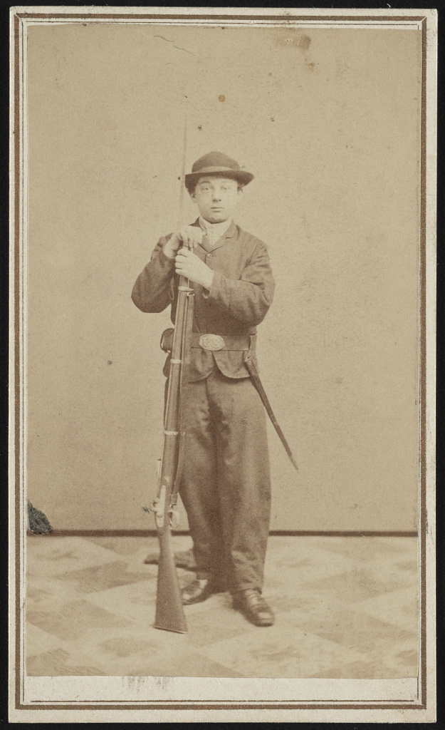 Title: Unidentified young soldier in Union uniform with bayoneted musket, possibly Private Harrison T. Lichtle or Lichtley of Co. D, 213th Pennsylvania Infantry Regiment] / Fred. Ulrich, photographer, No. 156 Bowery, New York Abstract/medium: 1 photograph : albumen print on card mount ; mount 10 x 6 cm (carte de visite format)